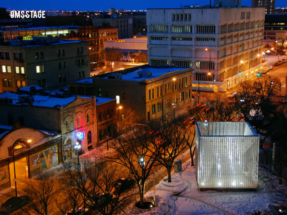 The OMS Stage by 5468796 Architecture located in Winnipeg, Manitoba. The OMS Stage (“The Cube”) is an open-air performance venue situated in Old Market Square, an iconic green space and summer festival hub in Winnipeg’s historic Exchange District.